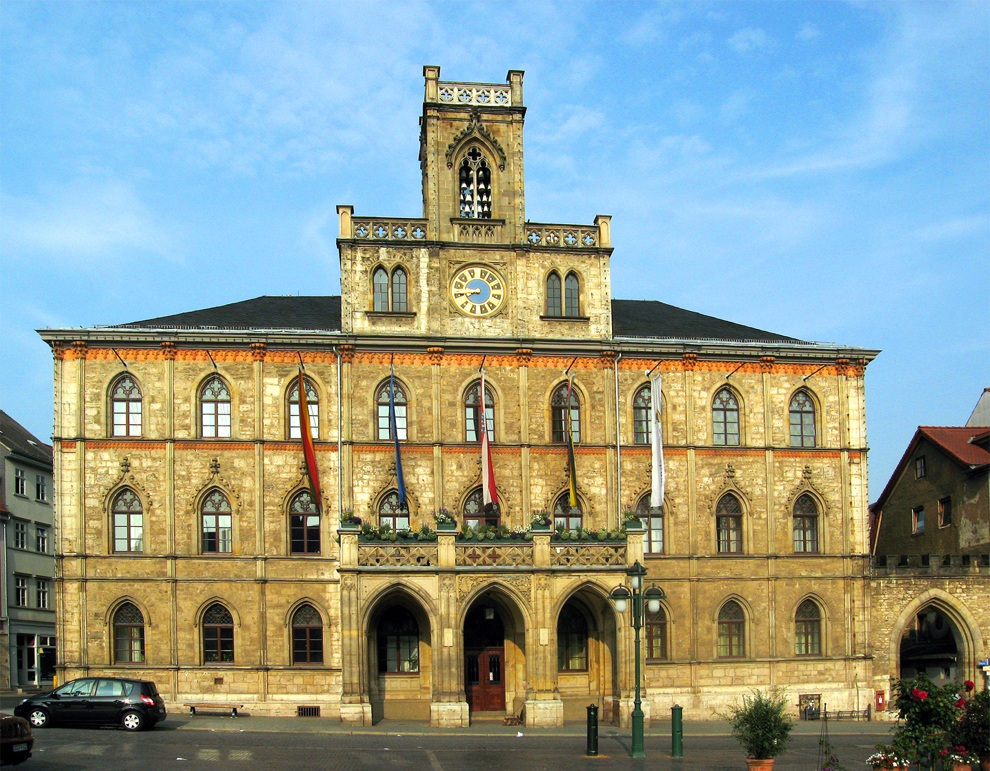 City hall of Weimar